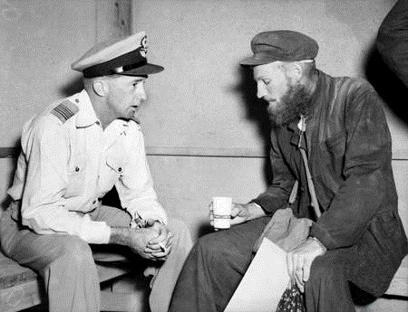 Panmunjom, North Korea. 1953-09-01. Following his release from prisoner of war camp in North Korea, Flight Lieutenant John "Butch" Hannan chats with Squadron Leader Neville McNamara, Executive Officer of No. 77 Squadron RAAF, at Freedom Village.